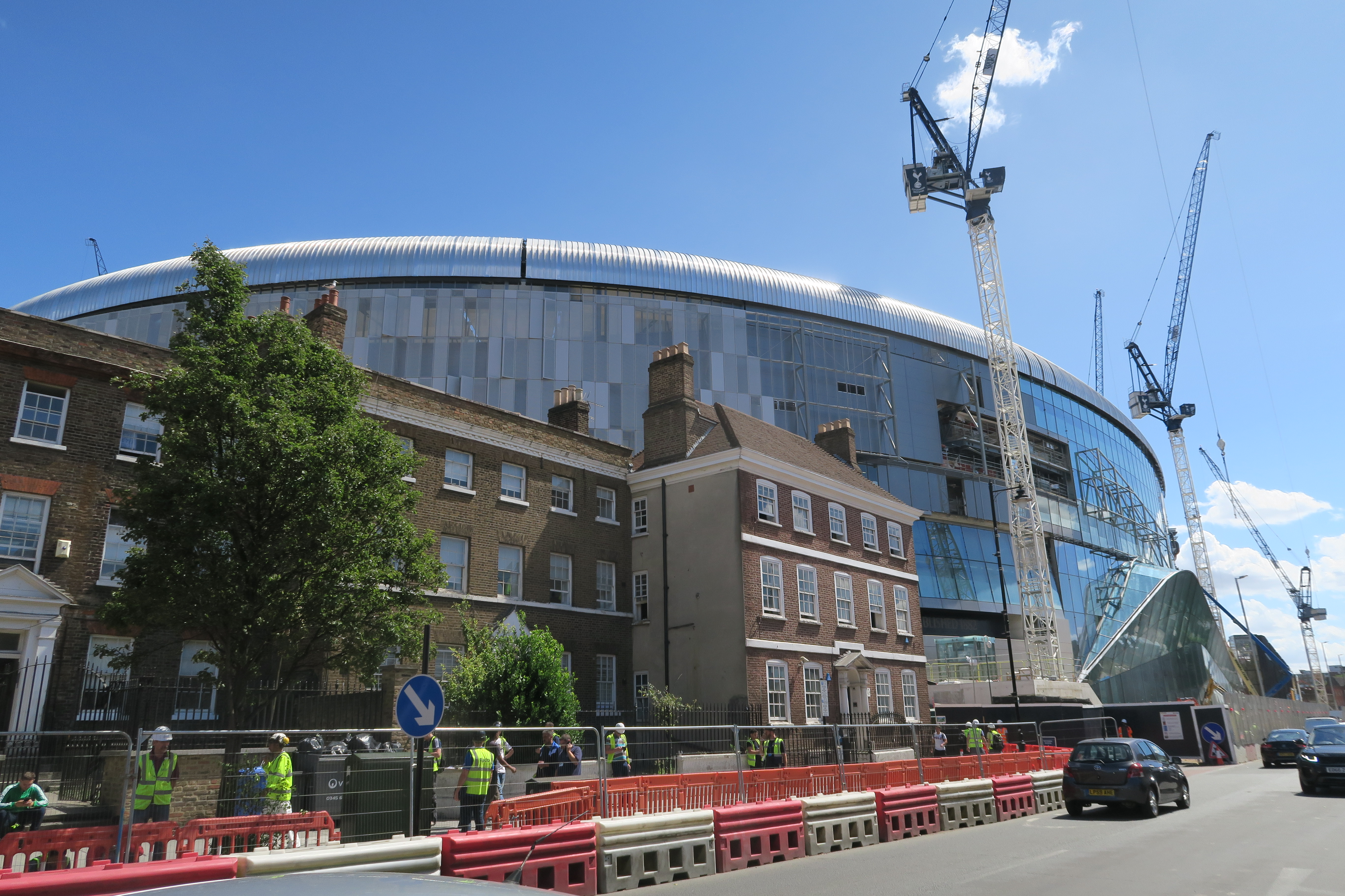 View of Tottenham Hotspur Stadium from northeast on High Road - July 2018